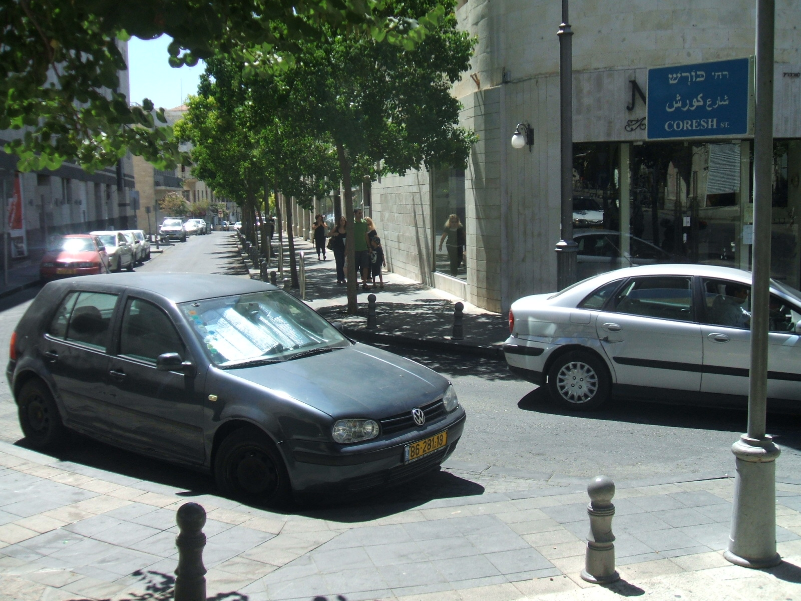 Coresh street (aka Koresh) in central Jerusalem